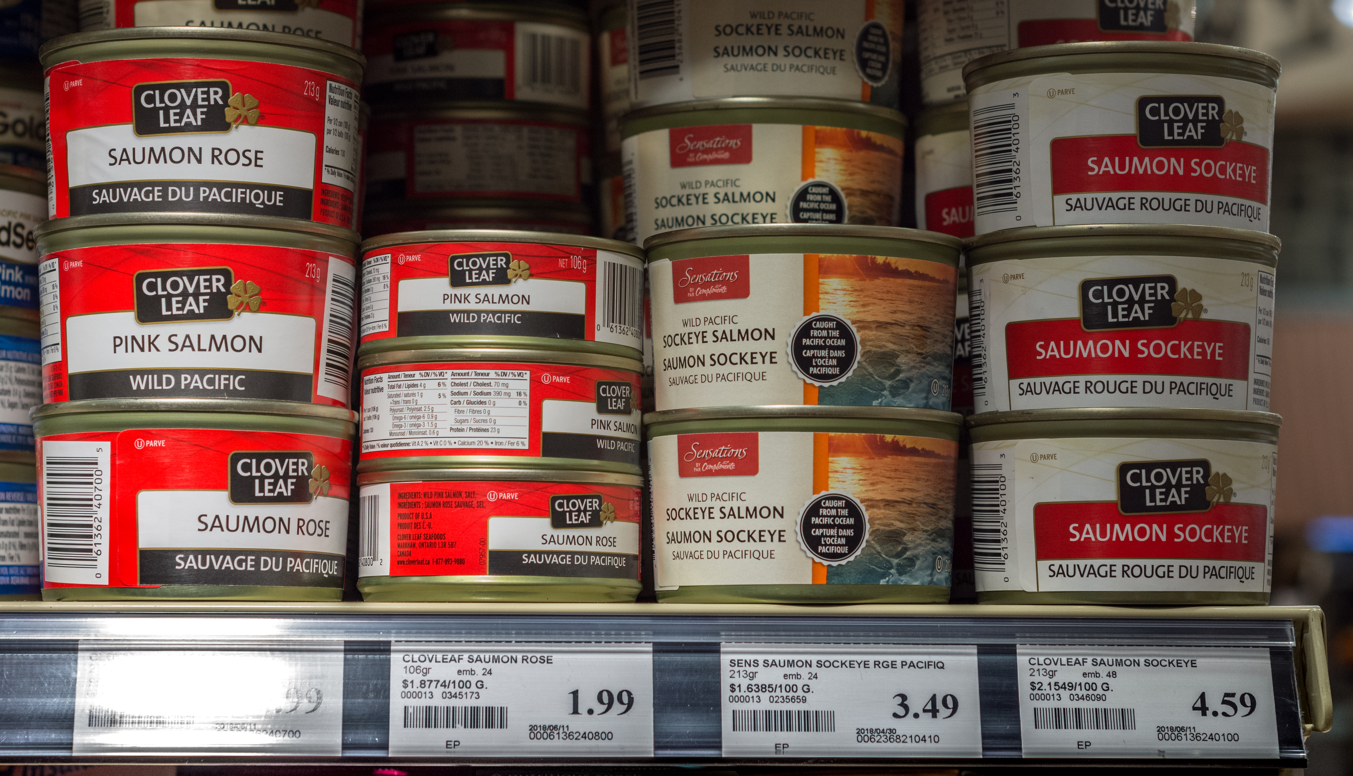 IGA store in Limoilou, Québec, Quebec, Canadá